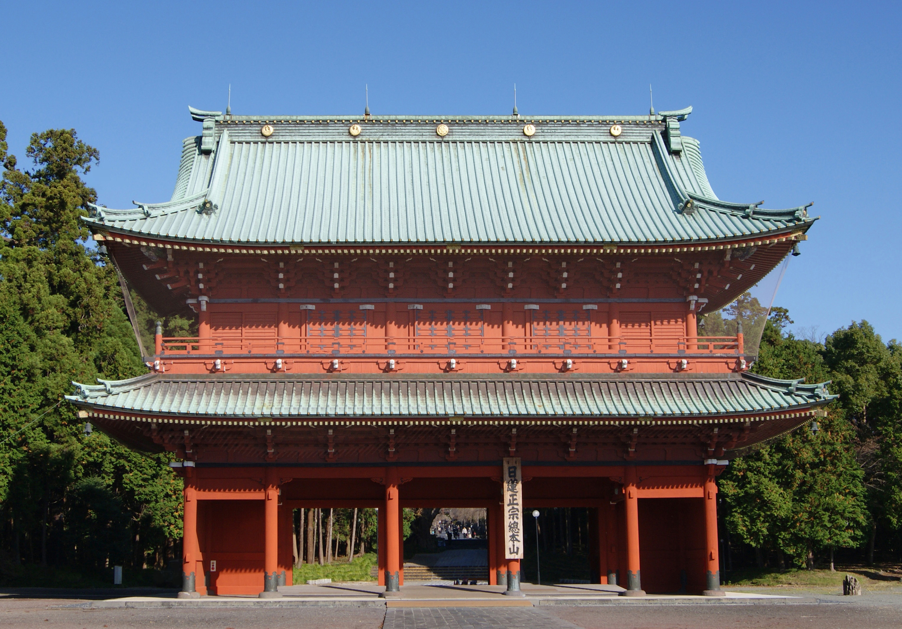 Sanmon of Taiseki-ji.